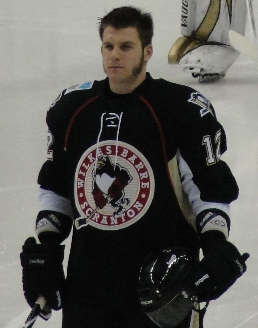 Photo of Brett Sterling during anthem at Giant Center in Hershey PA